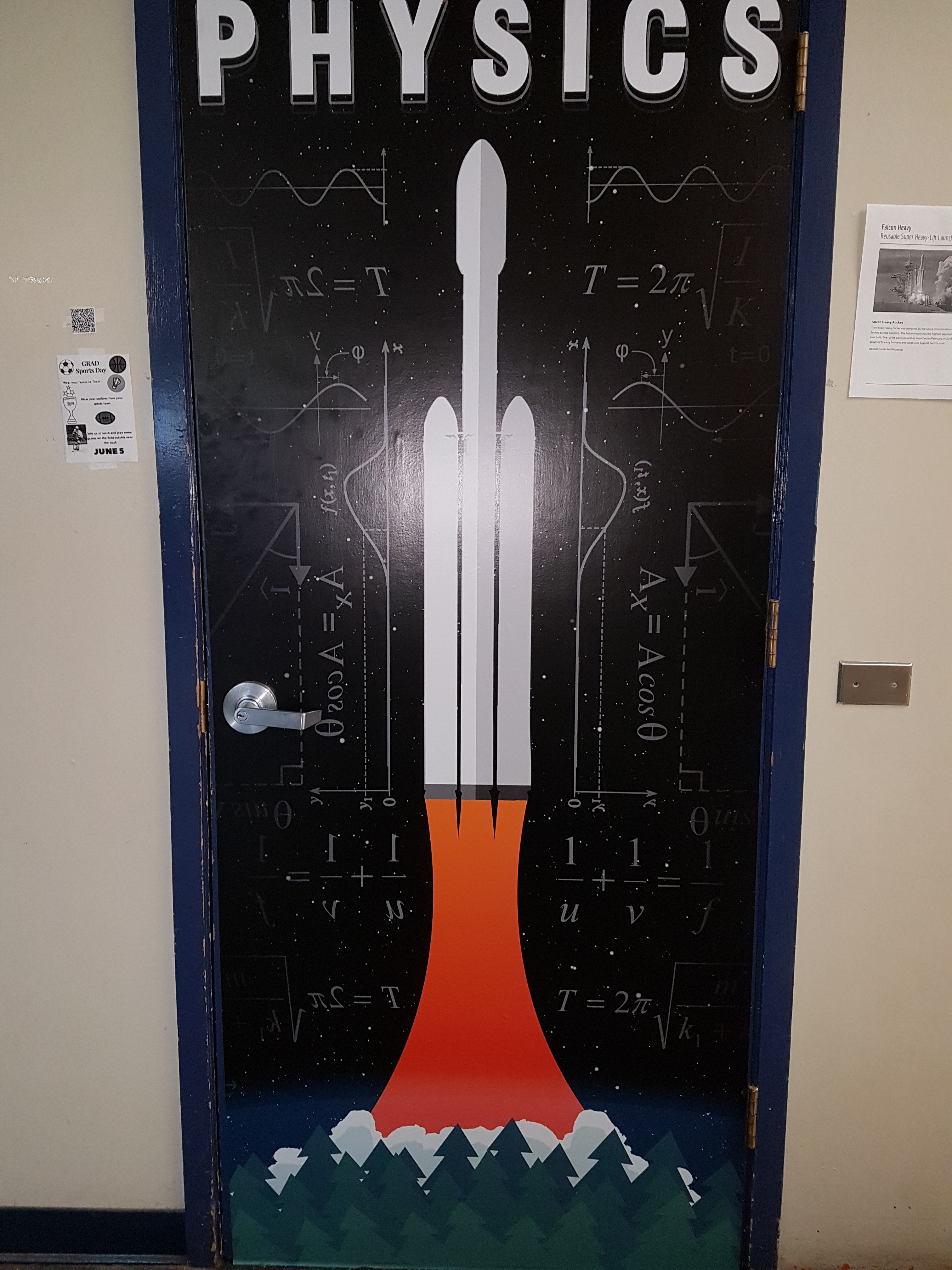 The door in Fall 2018